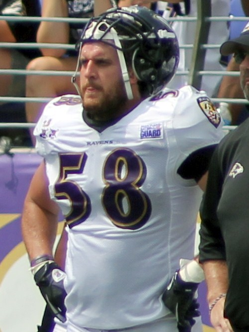 Jason Phillips at M&T Bank stadium August 2011